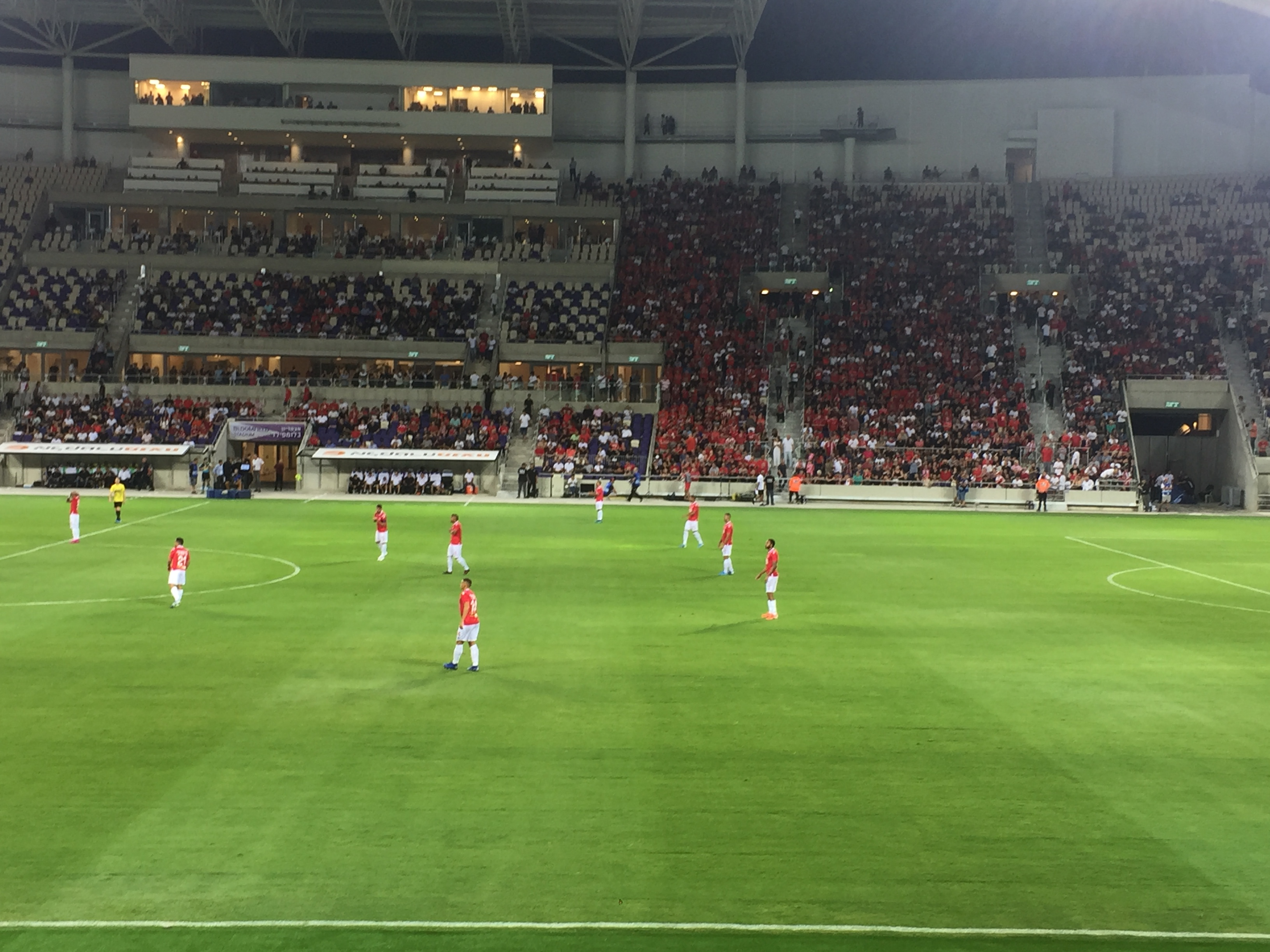 Hapoel Tel Aviv FC Players in Bloomfield Stadium, August 2019